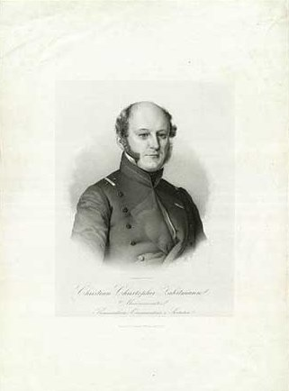 Christian Christopher Zahrtmann (1793-1853), Danish Vice Admiral and Minister of the Royal Navy